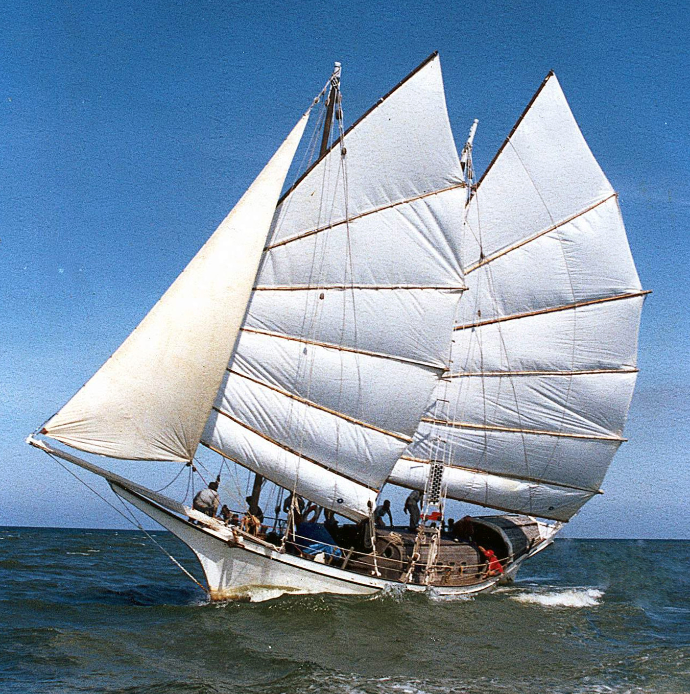 The bedar Naga Pelangi (L.o.D. 45 feet) sailing off the coast of Terengganu, 1998